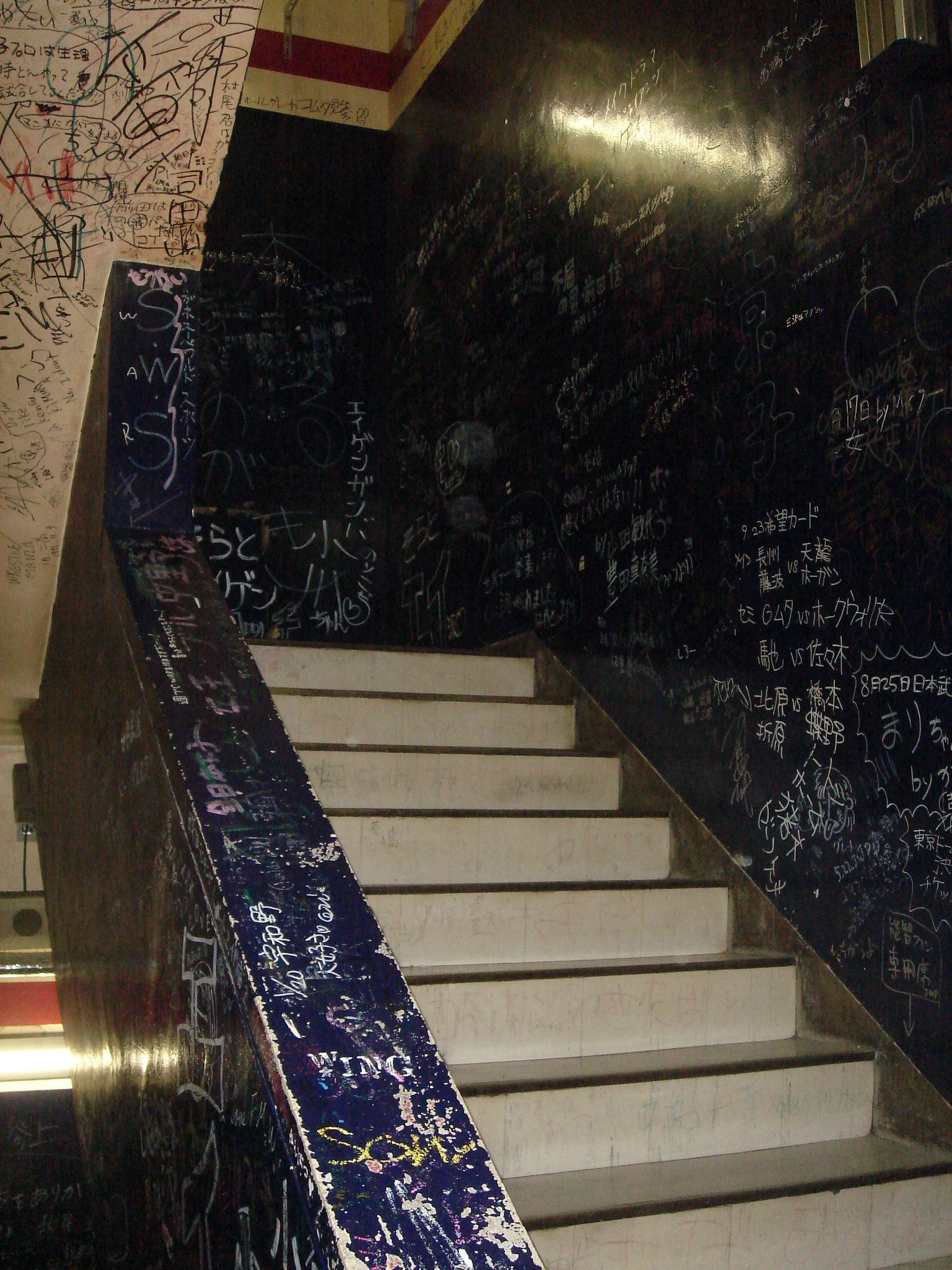 Graffiti written on the wall of stairs in Korakuen Hall